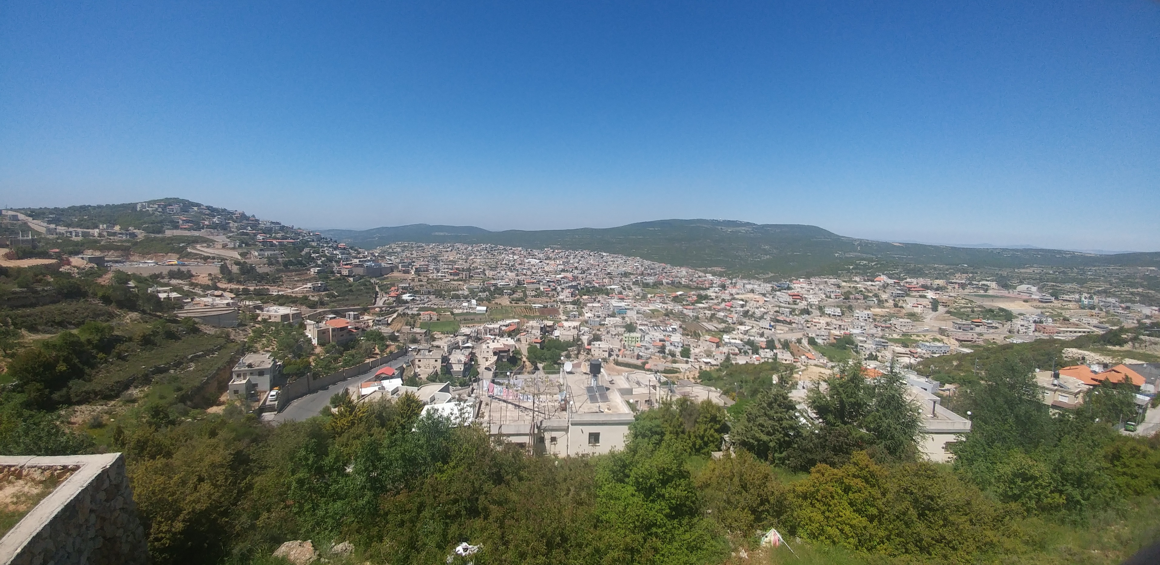 Beit Jann, a Druze village in upper Galilee.